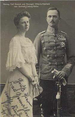 Viktoria Adelheid and Eduard of Saxe-coburg and Gotha